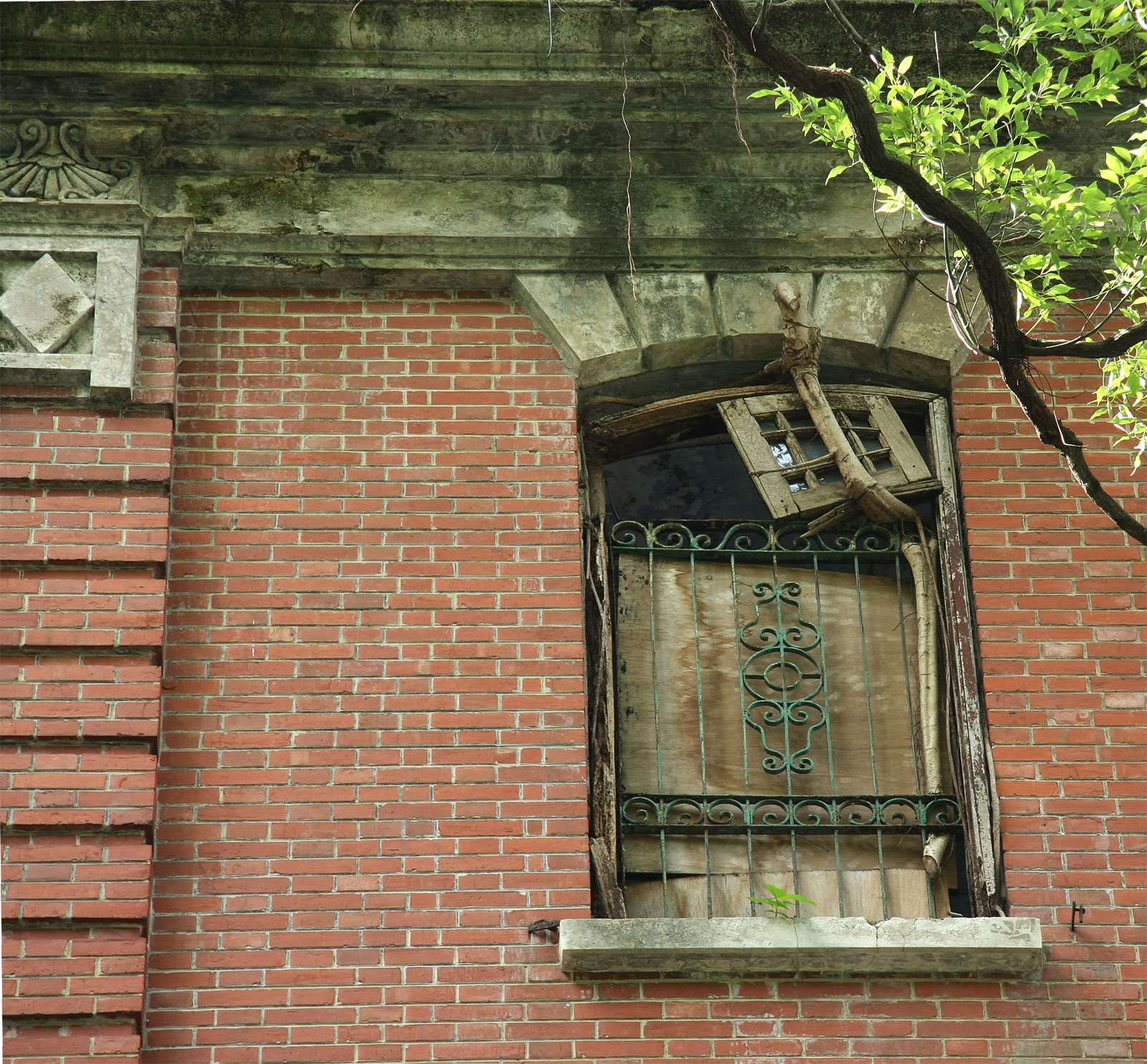 Nam Koo Terrace house. Architecture. Window grilles, red brickwork, upper cornice.